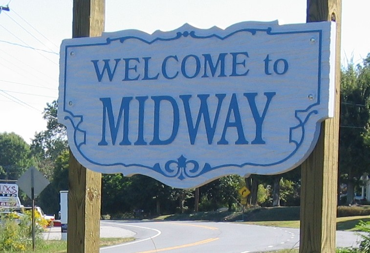 Picture of the Midway Welcome Sign in Midway, NC.